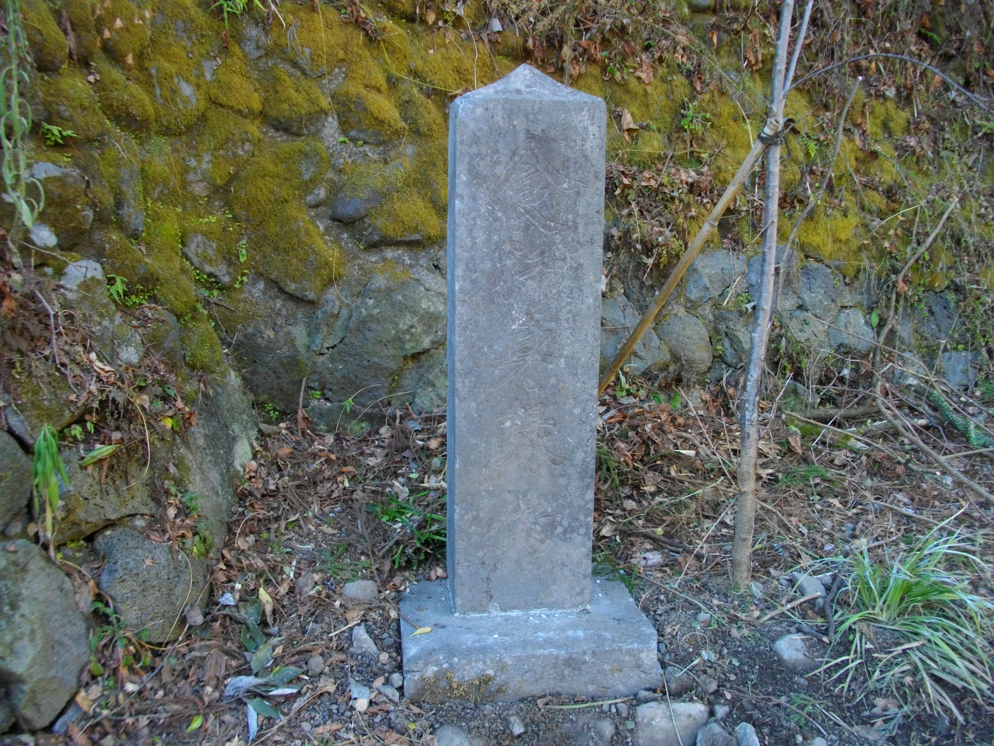 Monument of Jikigyo Miroku near Shiraito Falls